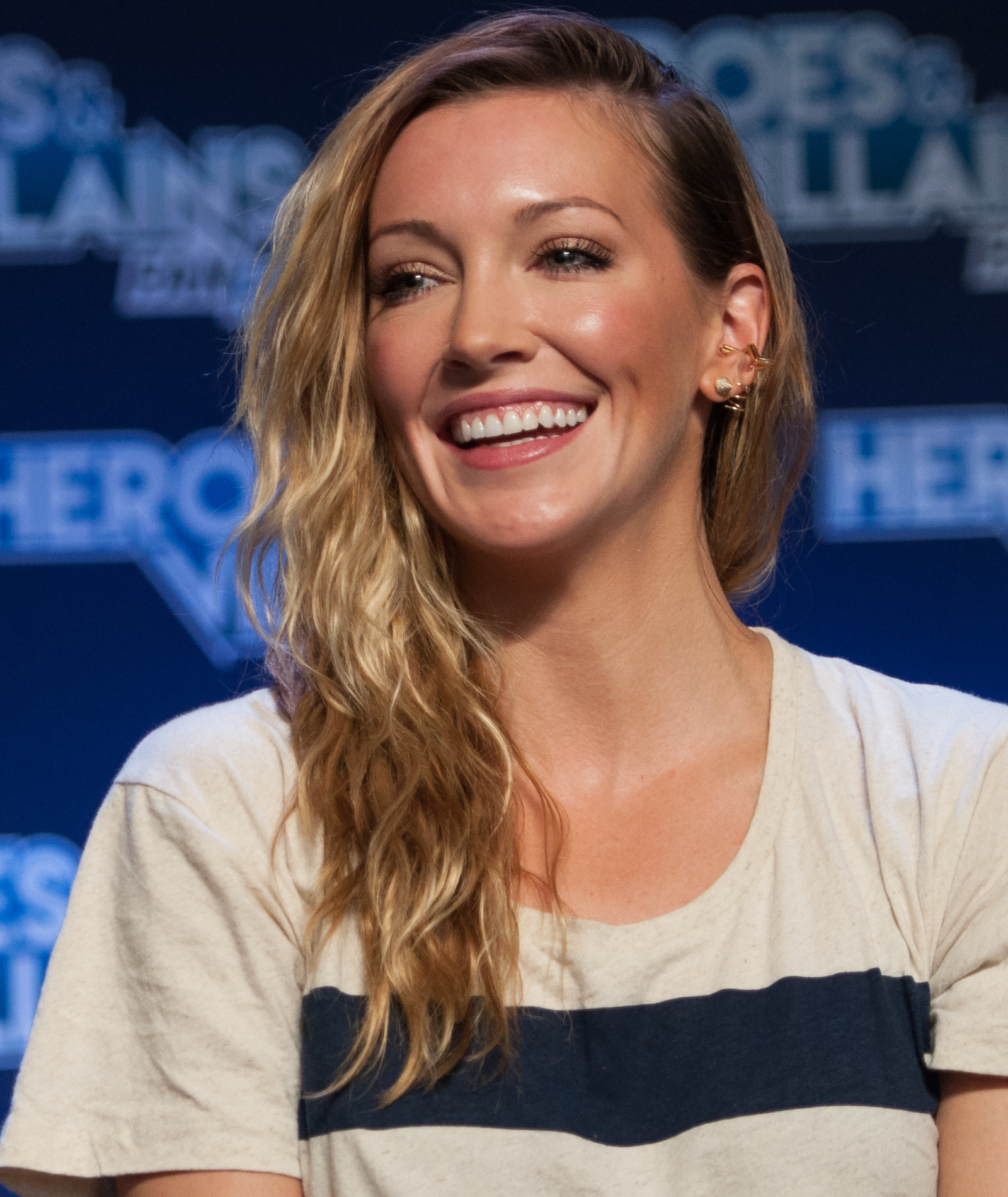 Katie Cassidy and Paul Blackthorne HVFF 2016